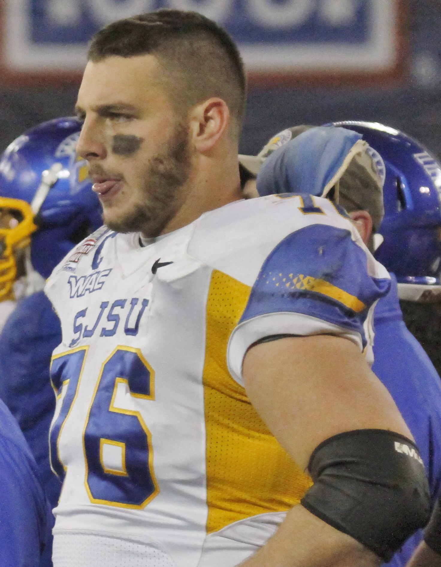 San Jose State offensive lineman David Quessenberry on the sidelines during the 2012 Military Bowl